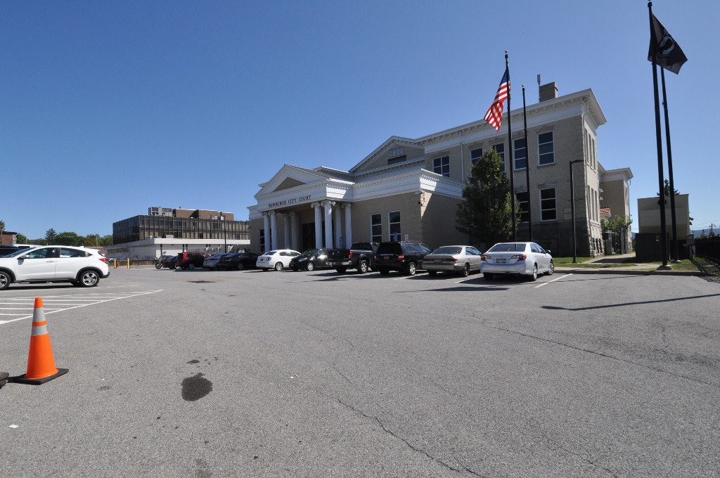 Back side of the Newburgh, New York, city courthouse. The Newburgh Colored Burial Ground is located under part of the parking lot and the area to the right of the building in this picture.